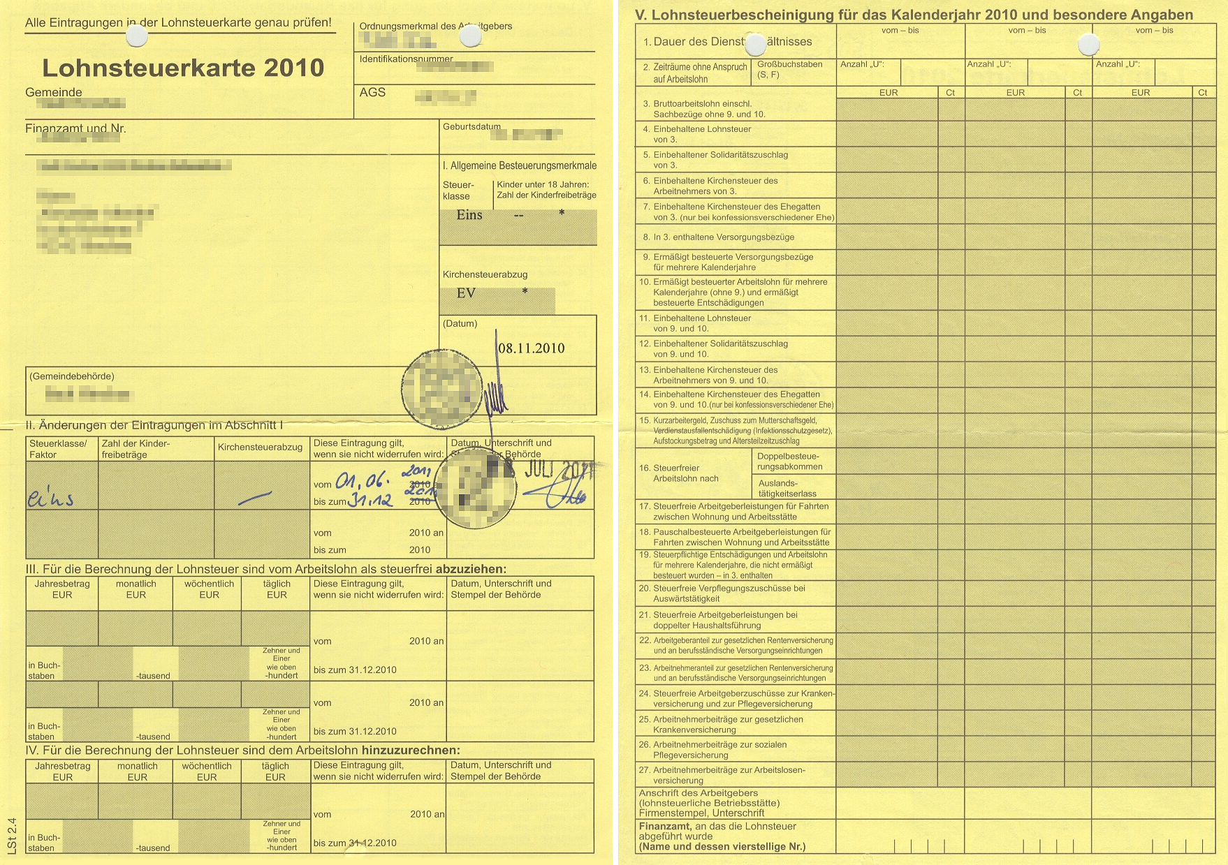 Front and back side of the last German wage tax card (Lohnsteuerkarte). It was used in 2010 and is valid until the end of 2012.